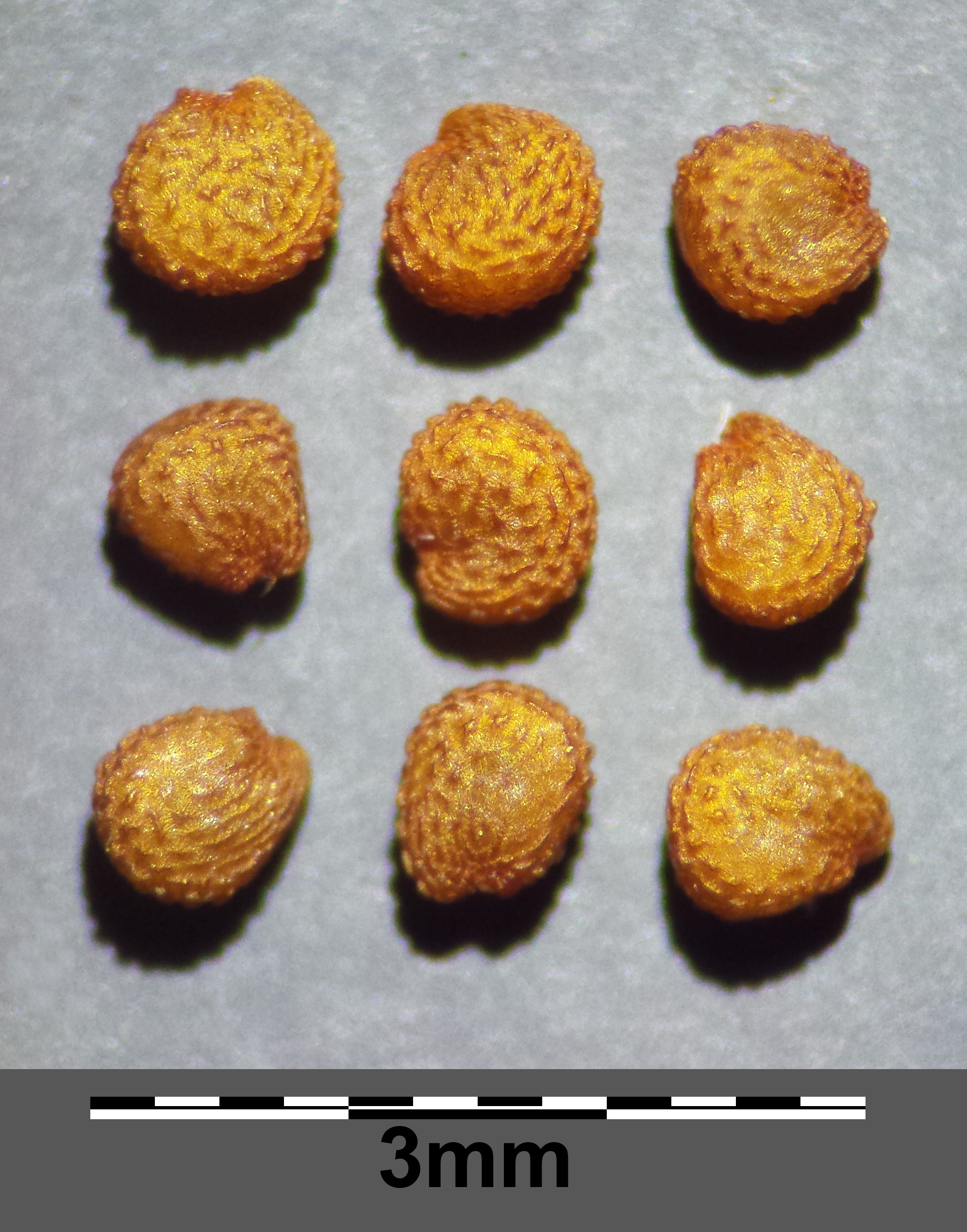 Seeds Taxonym: Cerastium holosteoides ss Fischer et al. EfÖLS 2008 ISBN 978-3-85474-187-9 Location: near Niederhollabrunn, district Korneuburg, Lower Austria - ca. 350 m a.s.l. Habitat: wine yard